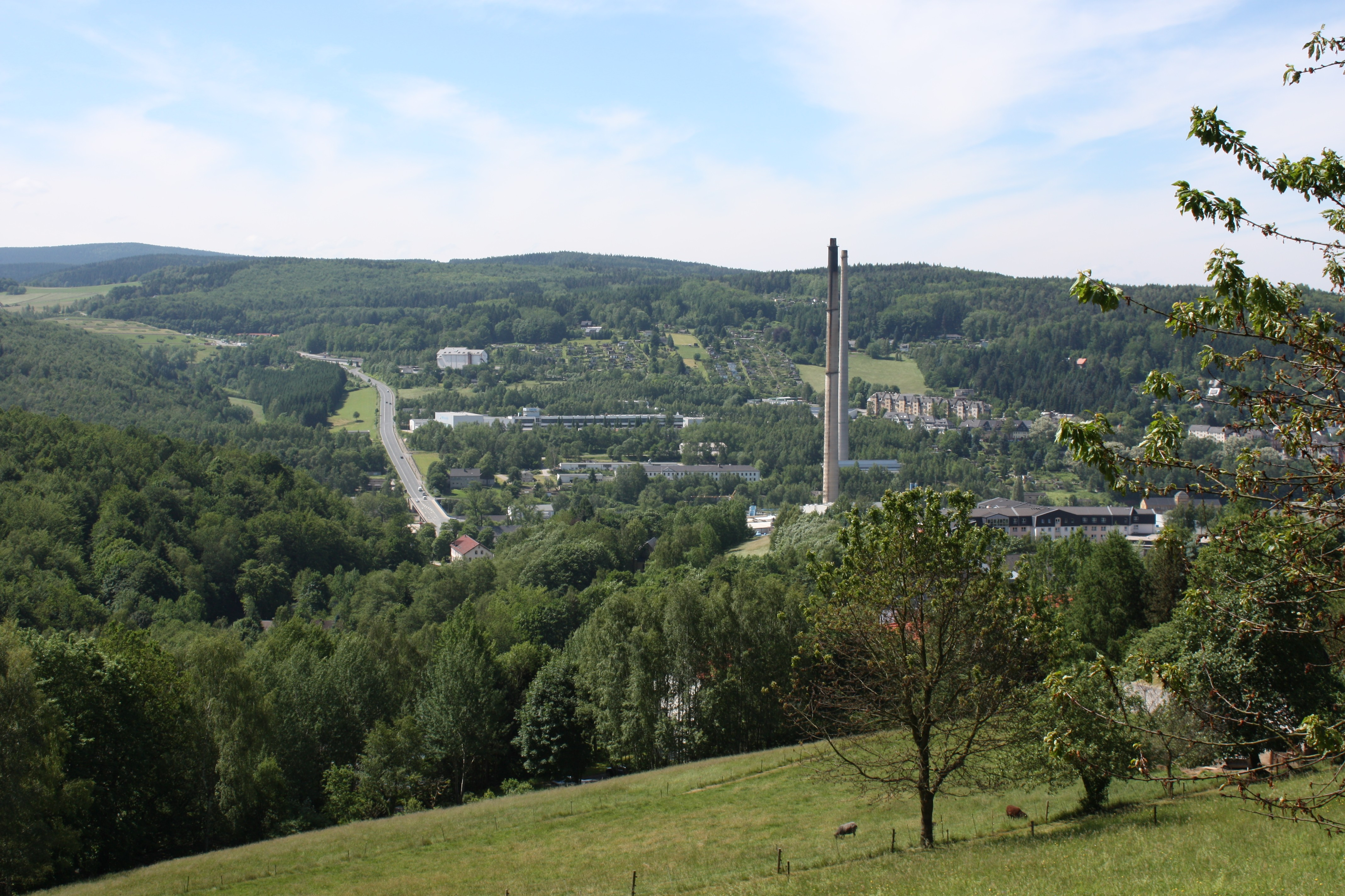 Aue (Sachsen), Becherweg